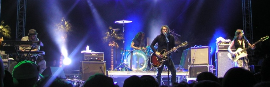 Silversun Pickups @ Coachella 2009. Image cropped by uploader.